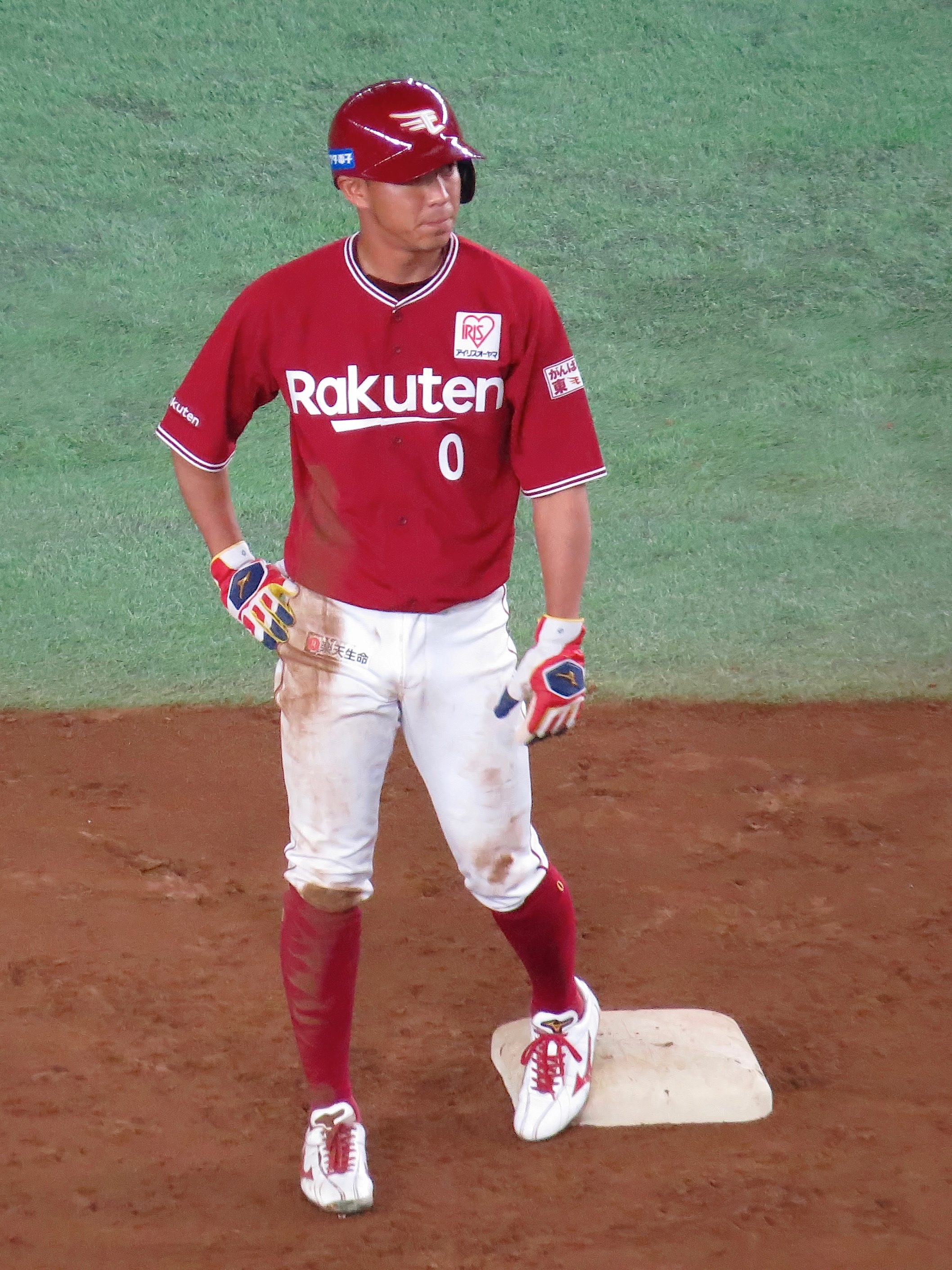 Hirohito Shimai, an outfielder of the Tohoku Rakuten Golden Eagles, at the Tokyo Dome